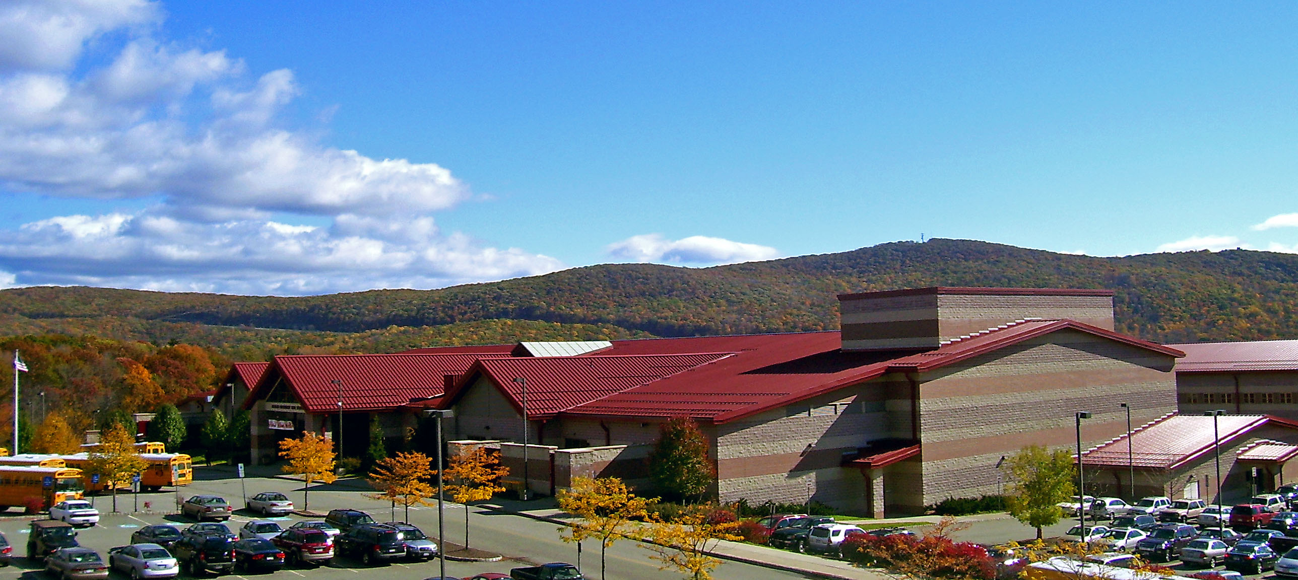 Photographed by Daniel Case 2006-10-25.